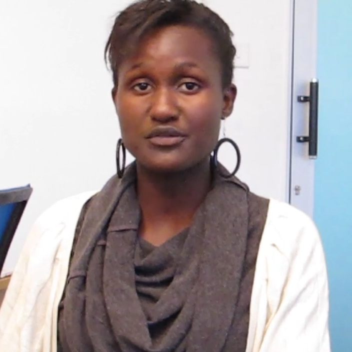 Innovation as seen by Linda Kwamboka on Vimeo cc by sa